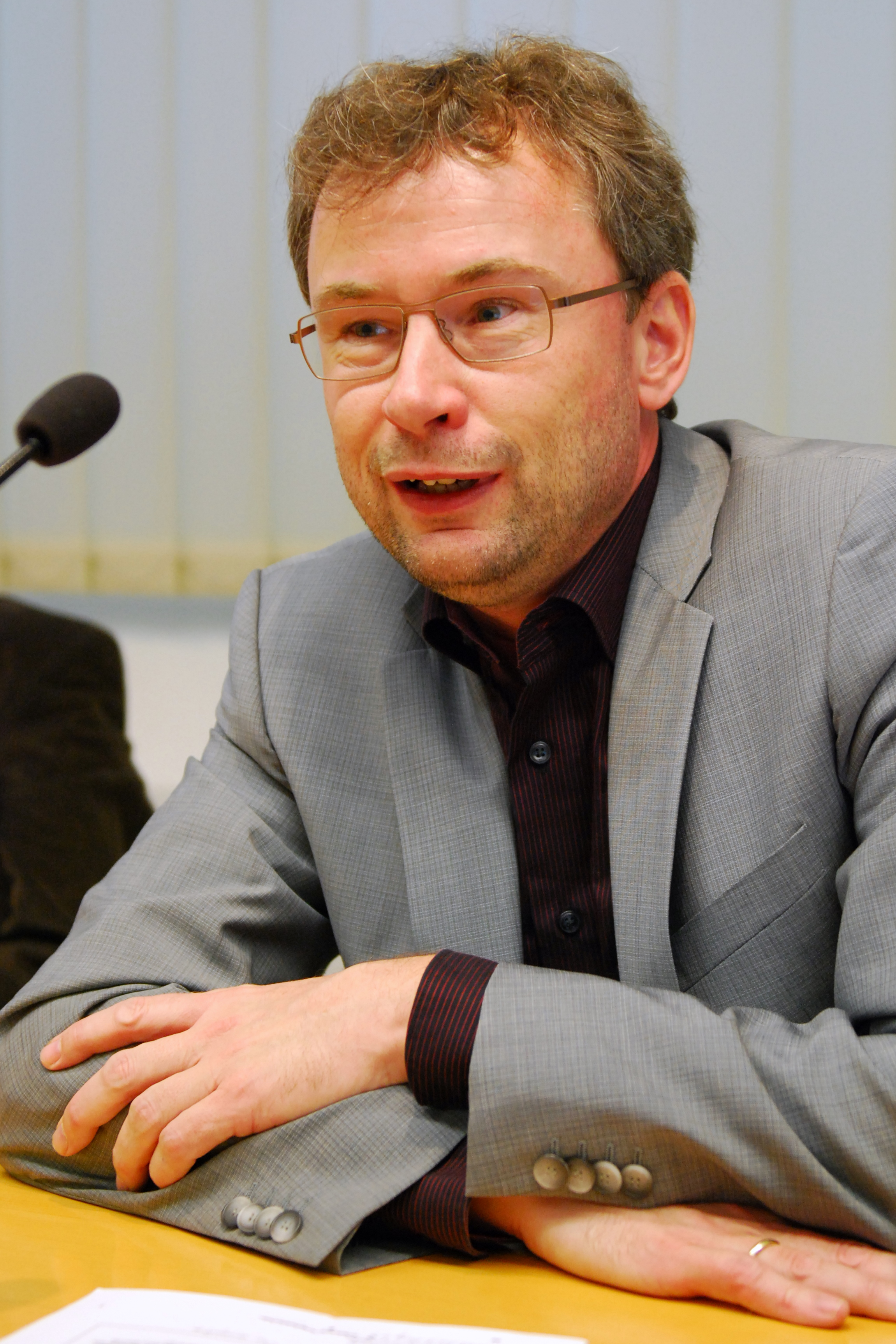 Jan Smits, law professor at the Maastricht University, taking at a conference organised at the University of Trento by Elsa Trento.